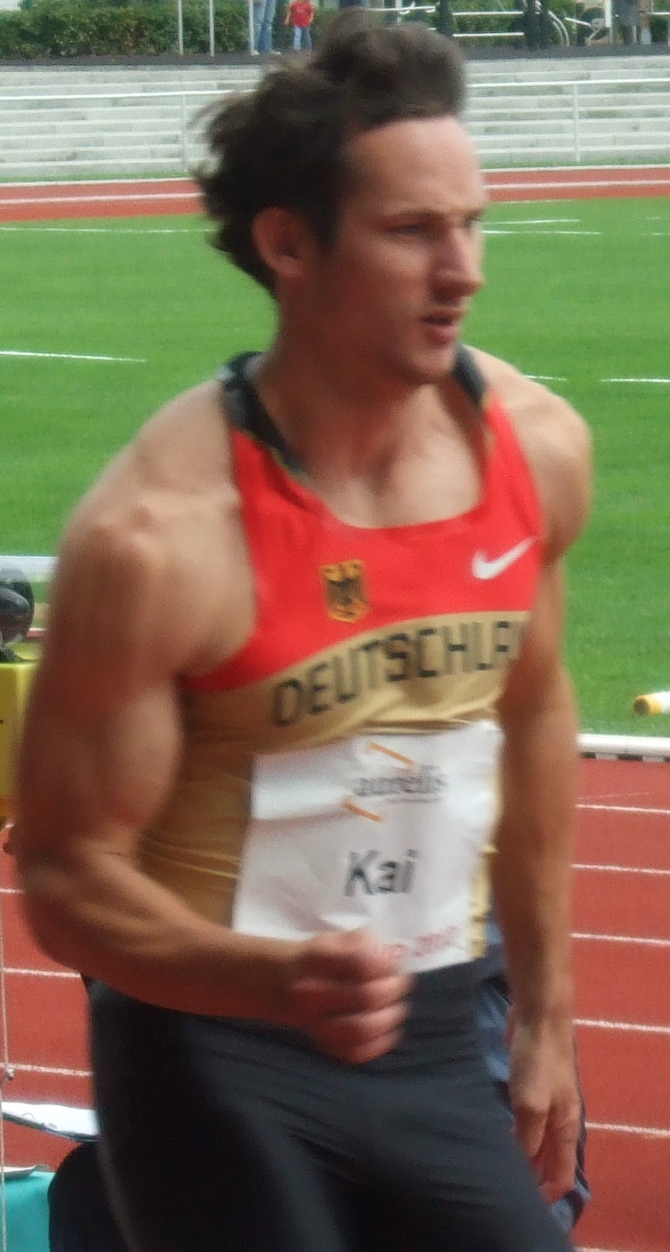 The decathlete Kai Kazmirek competing in the long jump at the 2012 Thorpe Cup